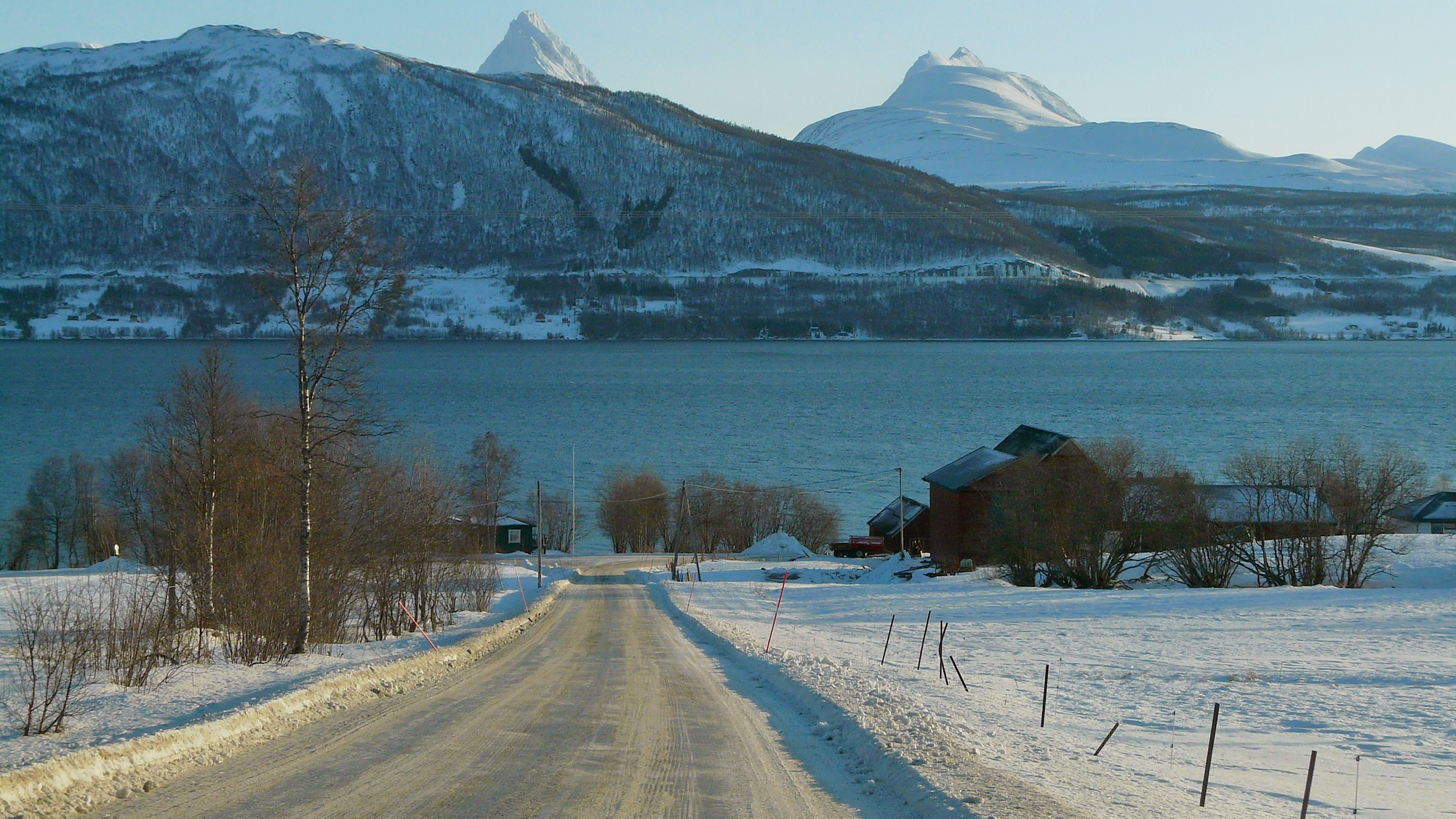 A view to Balsfjorden and the summits of Piggtinden and Storvasstinden from the west at the headland of Balsfjord in 2009 February.